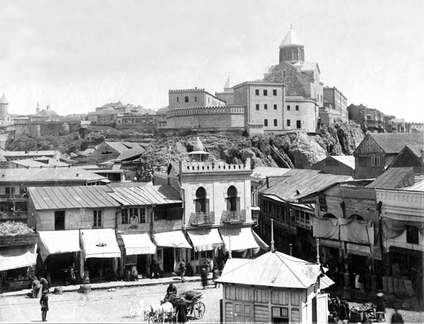 Tbilisi in the 19th century